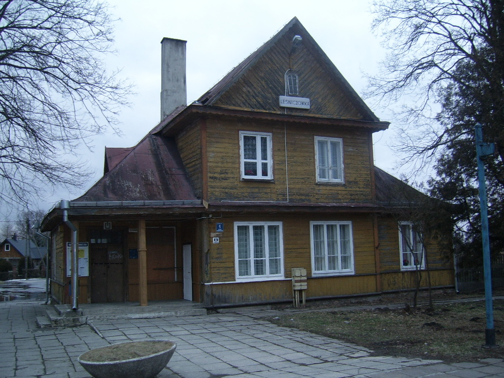 Train stop Leśniczówka 2